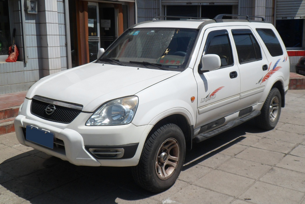 Shuanghuan Laibao S-RV photographed in Beijing, China.